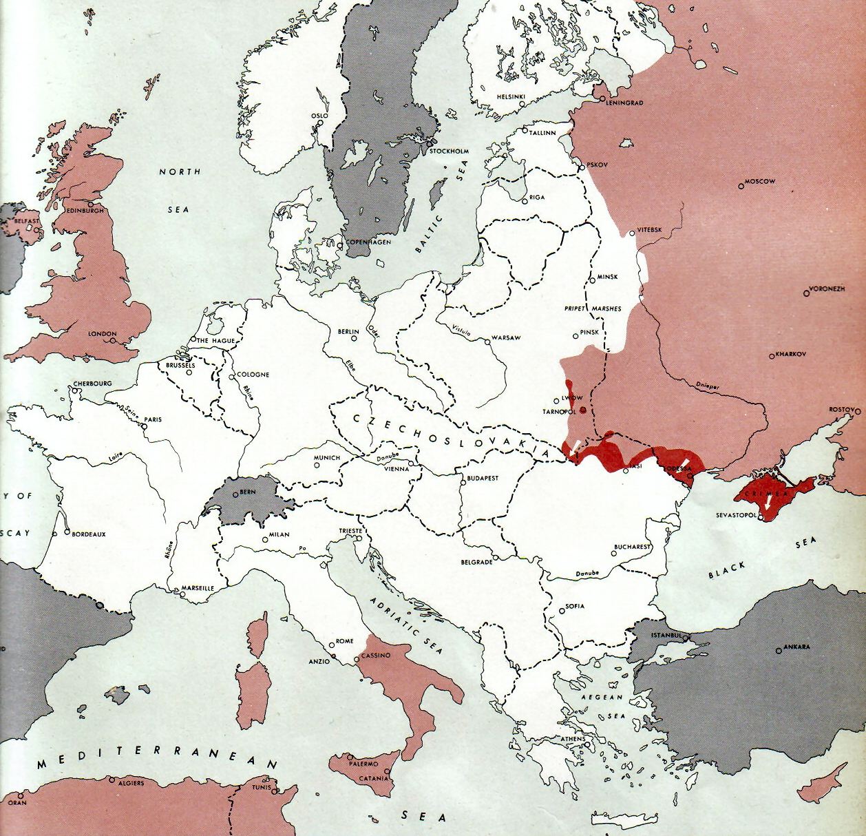 Map of the front against Germany: This map is taken from the source "Atlas of the World Battle Fronts in Semimonthly Phases to August 15th 1945: Supplement to The Biennial report of The Chief of Staff of the United States Army July 1, 1943 to June 30 1945 To the Secretary of War". (See Cover, Forward and Map details)